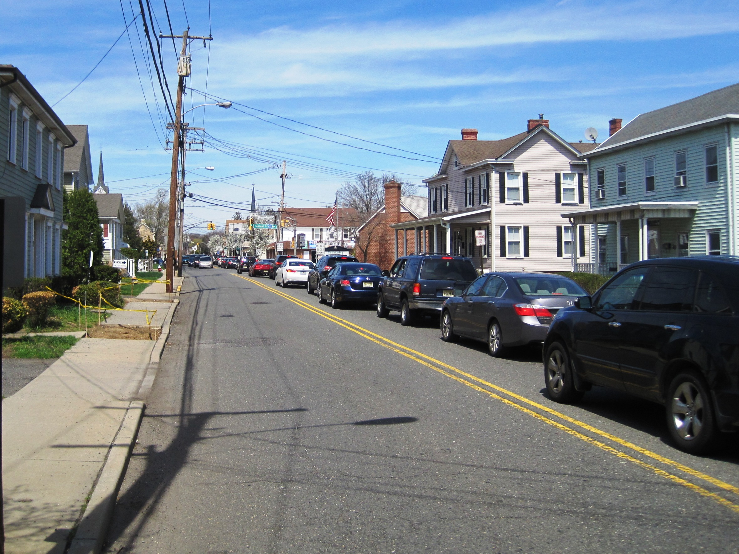 Photo of Englishtown, New Jersey, a borough in Monmouth County. Photo taken looking north along Main Street (County Route 527) towards Tennant Avenue (CR 522).